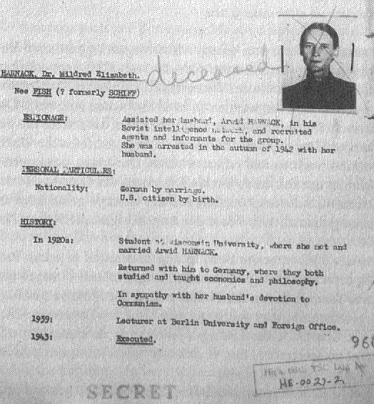 Red Orchestra member Mildred Fish Harnack, Counterintelligence Corps (CIC) Red Orchestra (RO) file